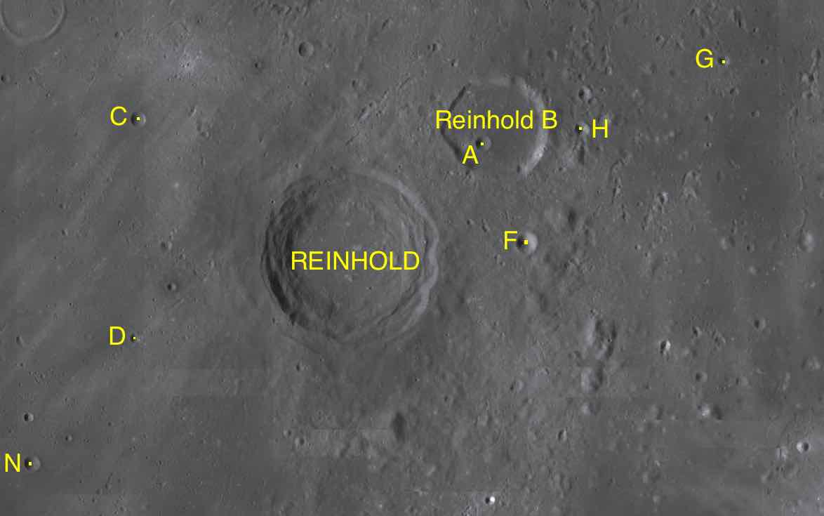 Part of the chart LAC-58 used for the presentation